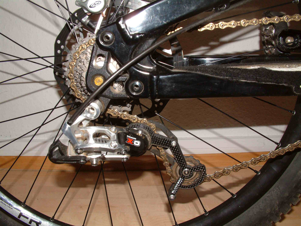 SRAM X0 Blackbox bike gears